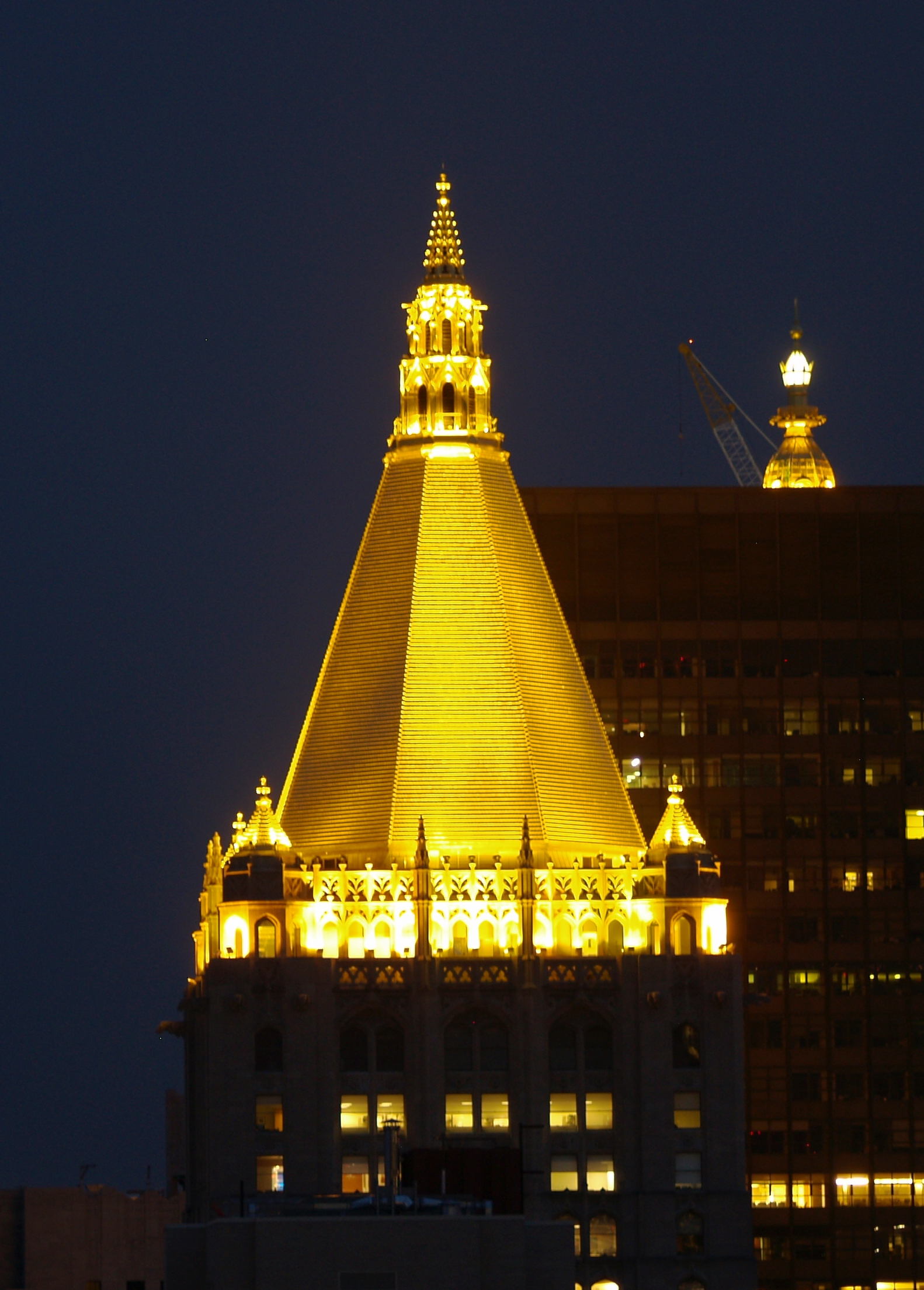 The gold top of the New York Life building in New York City.